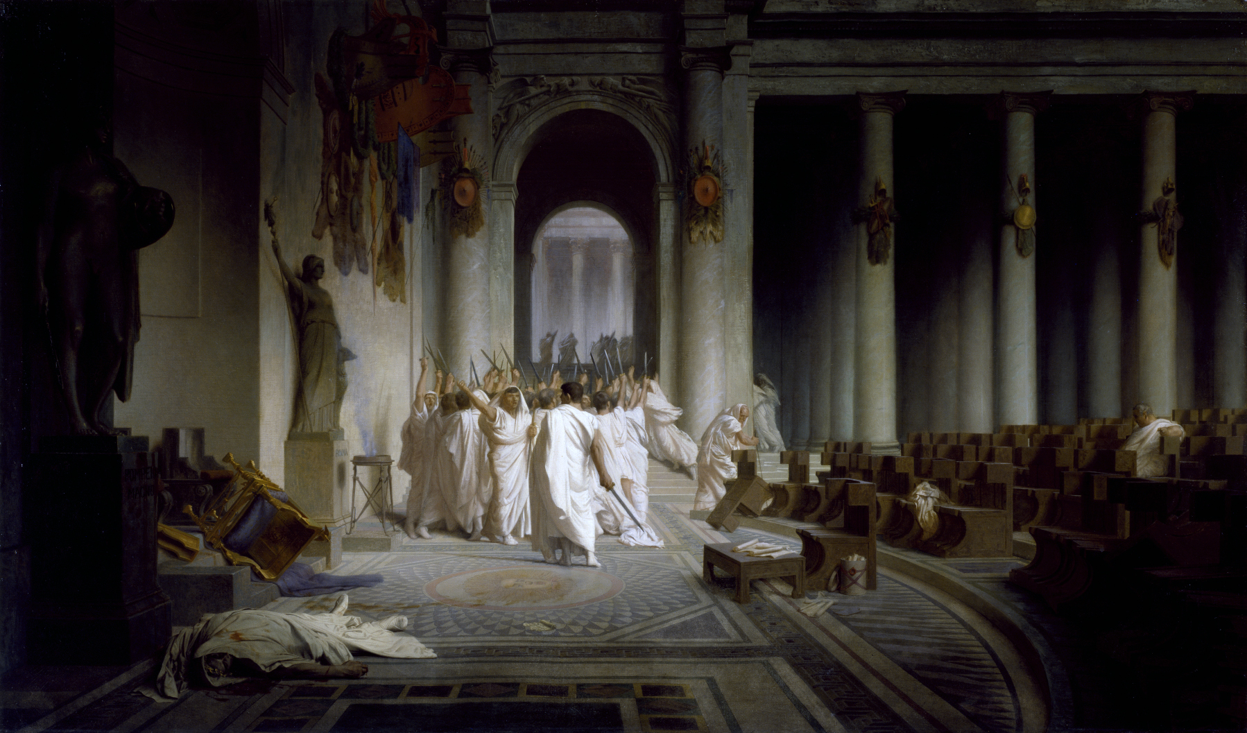 Julius Caesar was assassinated in Rome on the Ides of March (March 15), 44 BC. Characteristically, Gérôme has depicted not the incident itself, but its immediate aftermath. The illusion of reality that Gérôme imparted to his paintings with his smooth, polished technique led one critic to comment, "If photography had existed in Caesar's day, one could believe that the picture was painted from a photograph taken on the spot at the very moment of the catastrophe."